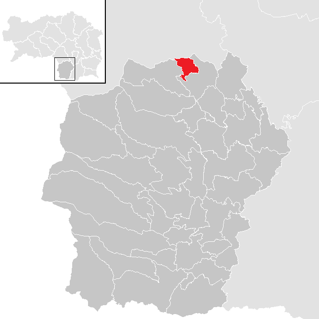 District Deutschlandsberg, Styria, Austria